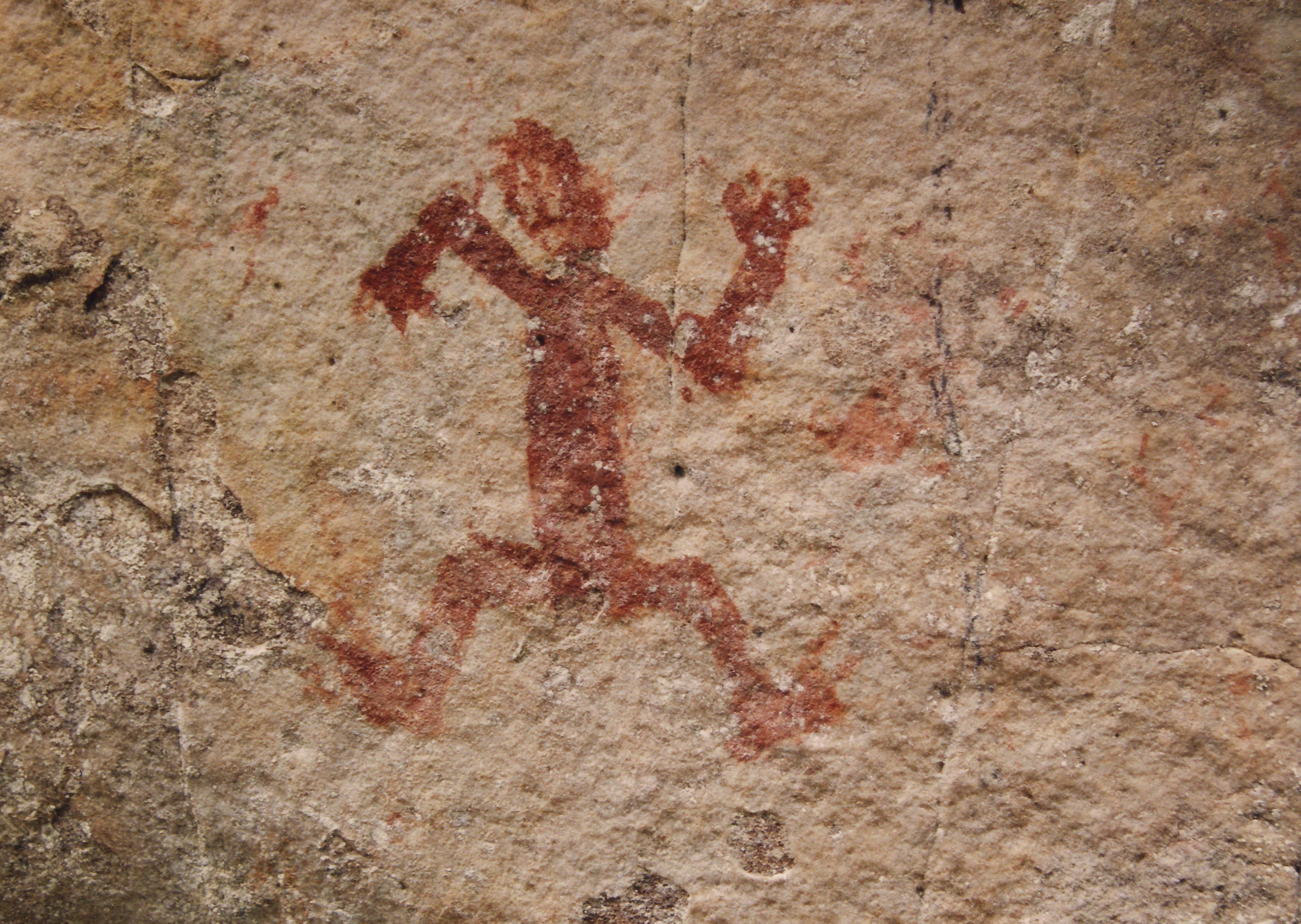 Petroglyphs in the Parque Nacional Natural Chiribiquete